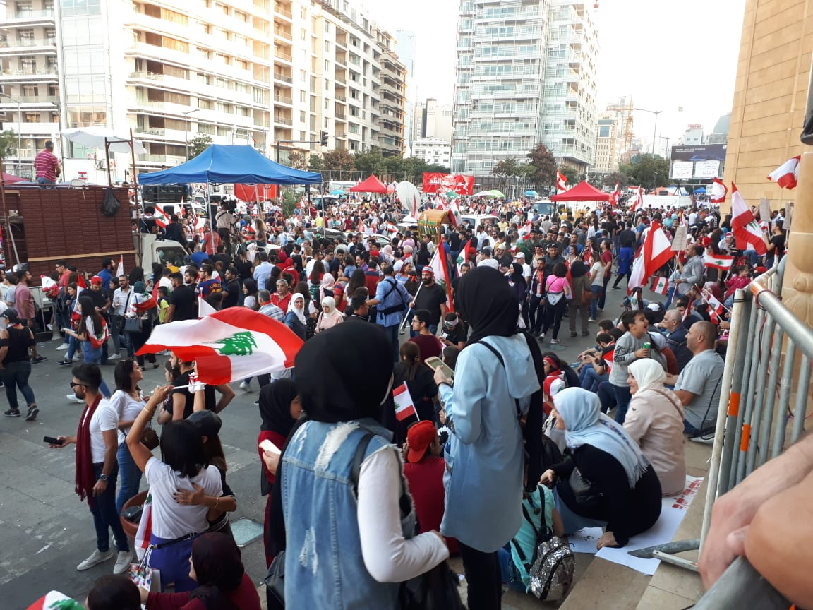 Protests in Beirut